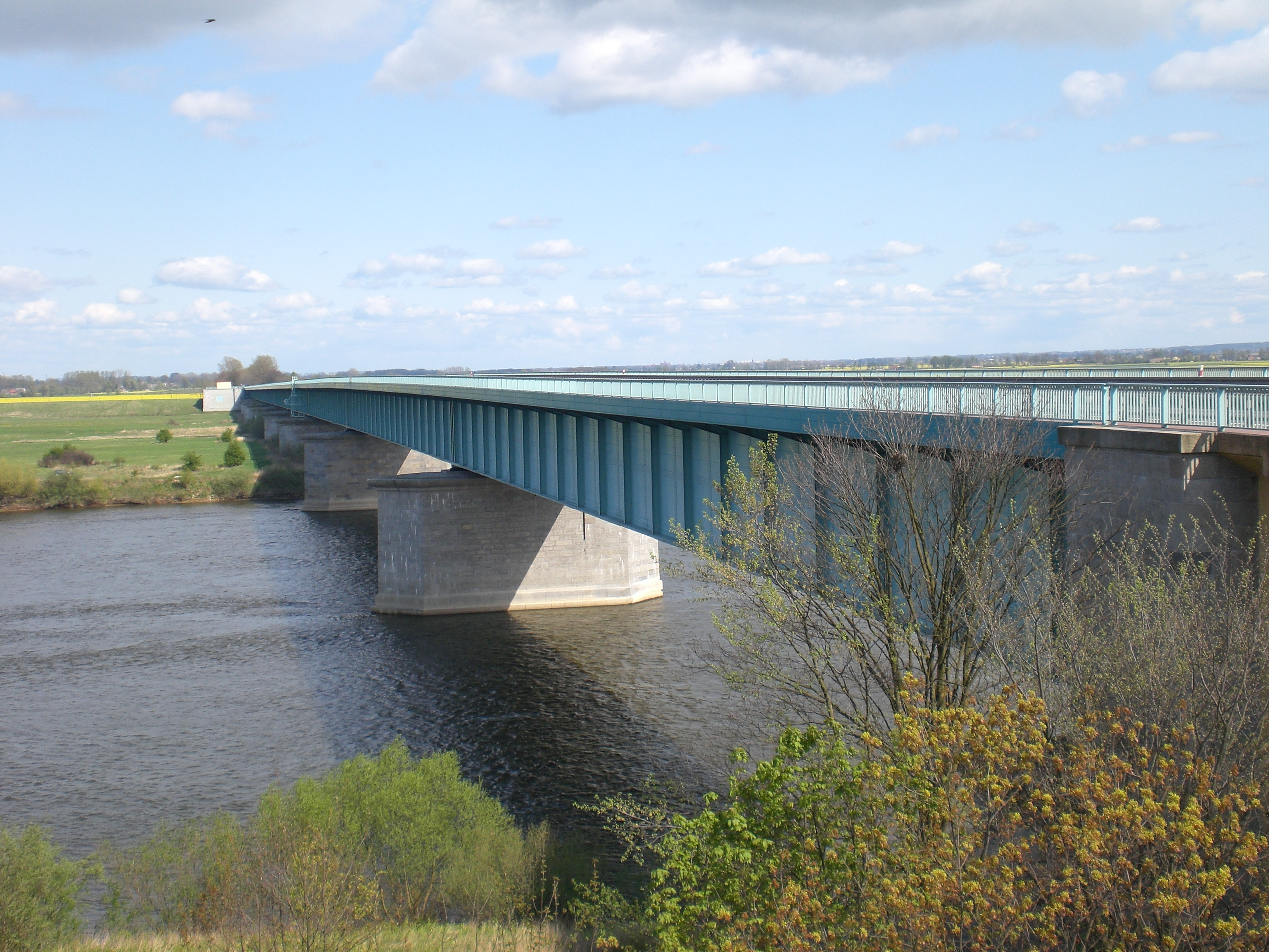 Bridge over the Vistula in Knybawa, Poland